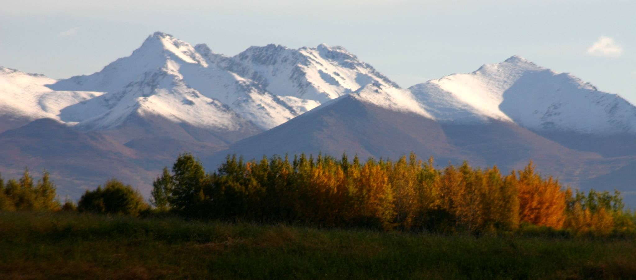 Taken around Anchorage, Alaska in September 2007.